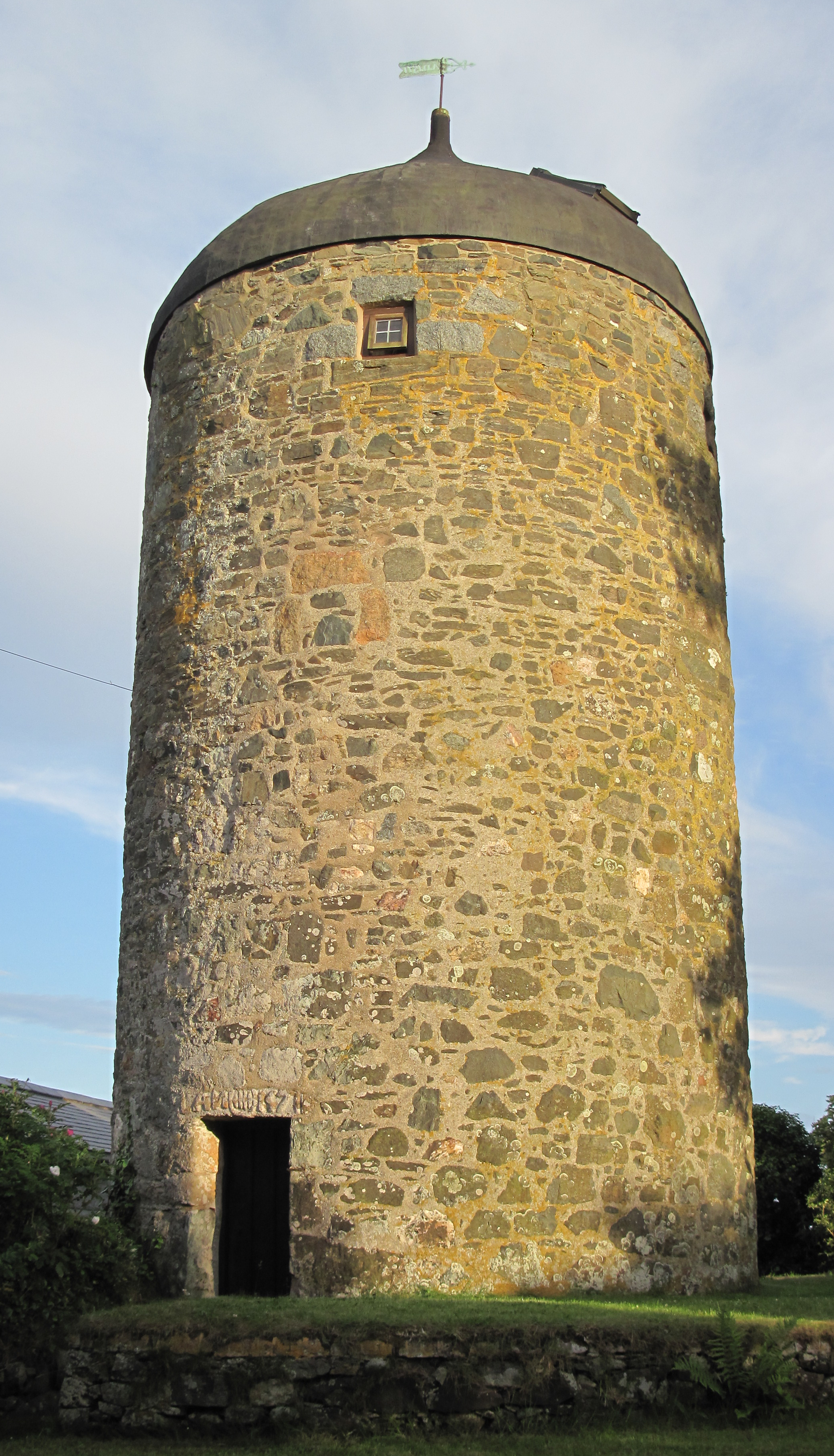 In Sark, 3 July 2010